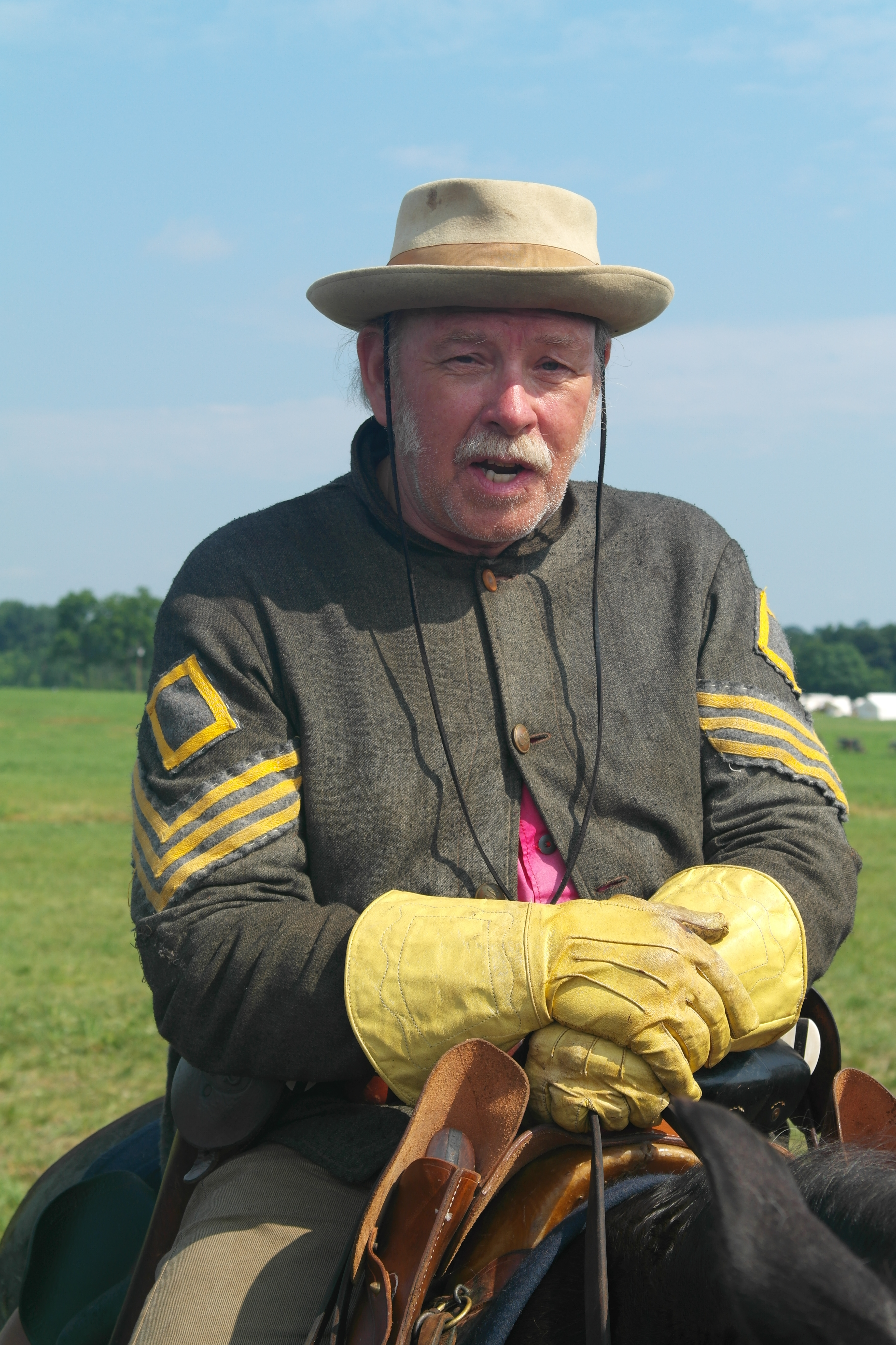 the 150TH Gettysburg Anniversary National Civil War Battle Reenactment, the single largest and one of the most pivotal military engagements ever fought on American soil.